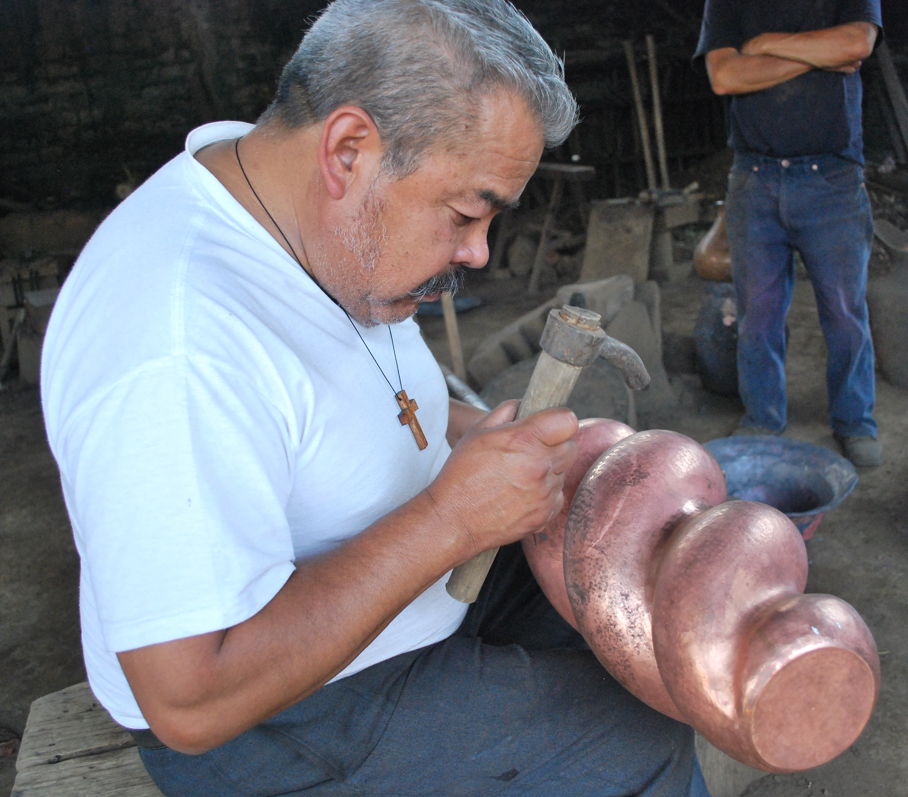 Abdón Punzo working on copper vessel in his workshop in Santa Clara del Cobre, Michoacán